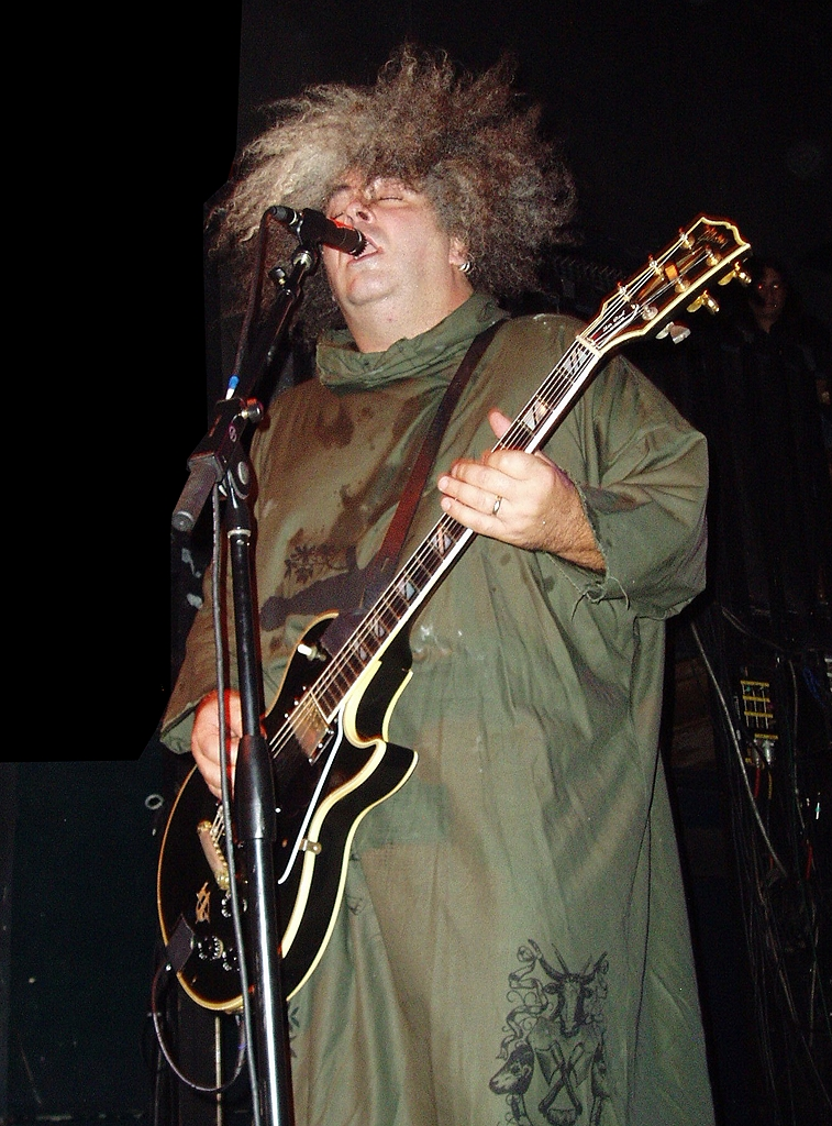 Buzz Osborne (a.k.a. King Buzzo) playing with Melvins at Aggie Theatre, Fort Collins, Colorado - USA.